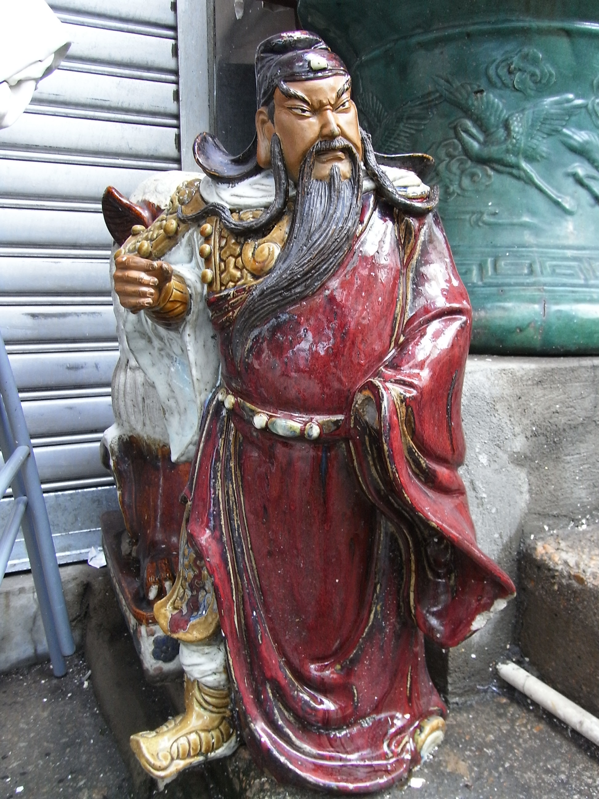 上環 樂古道, Lok Ku Road, Sheung Wan, Hong Kong